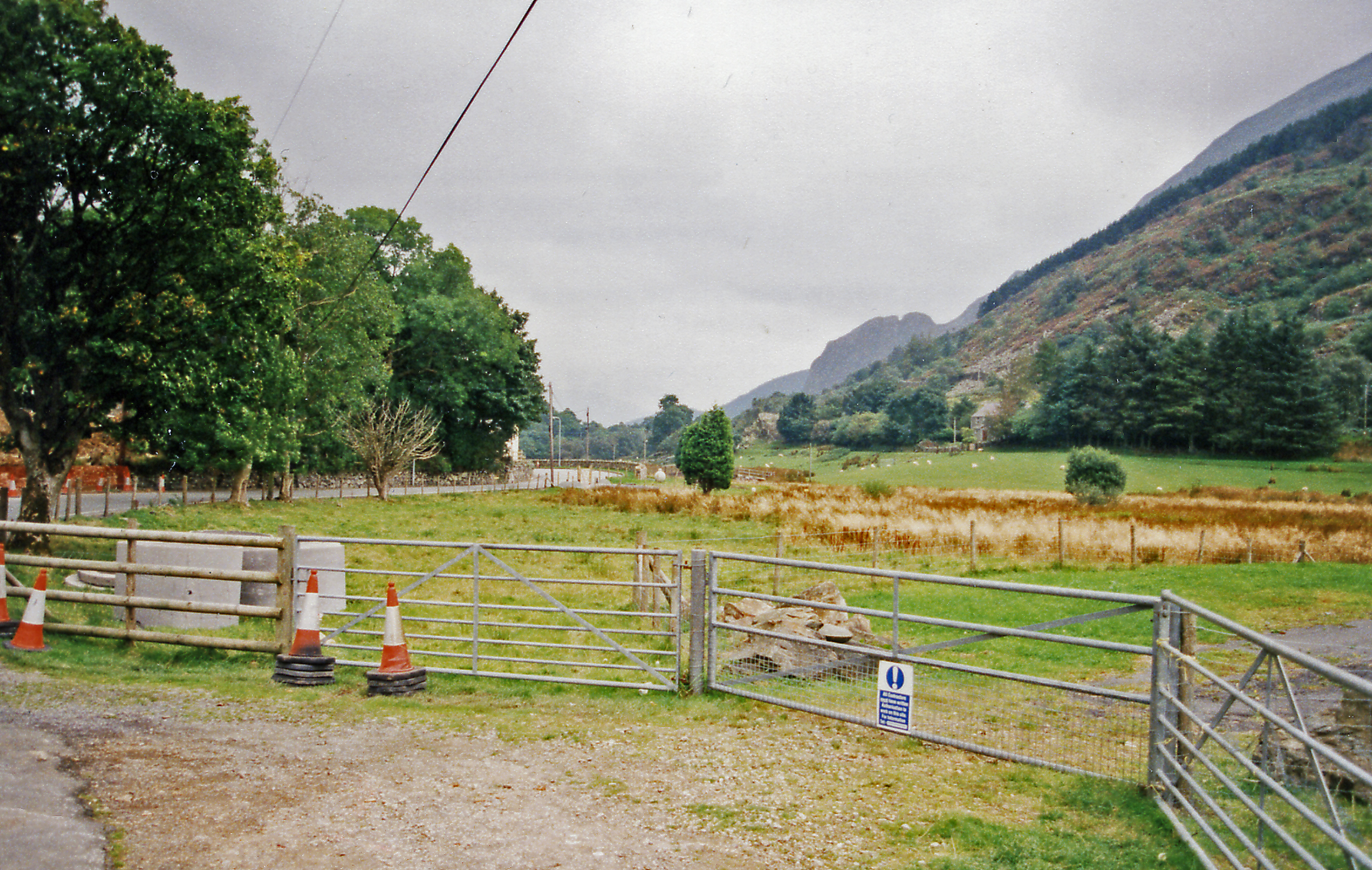 Site of Welsh Highland Railway station to be built at Betws Garmon, 1999. View southward from the A4085 (Caernarfon - Beddgelert) road. The original Welsh Highland narrow-gauge line through here was closed back in June 1937. Now in 1999 preliminary restoration work is evident, but some years before the heritage Welsh Highland line would be opened in 2009 through to Beddgelert. The reopened station is now known as Plas-y-Nant. This is the Afon Gwyrfal valley and to the right are the mountains rising above Llyn Cwellyn.